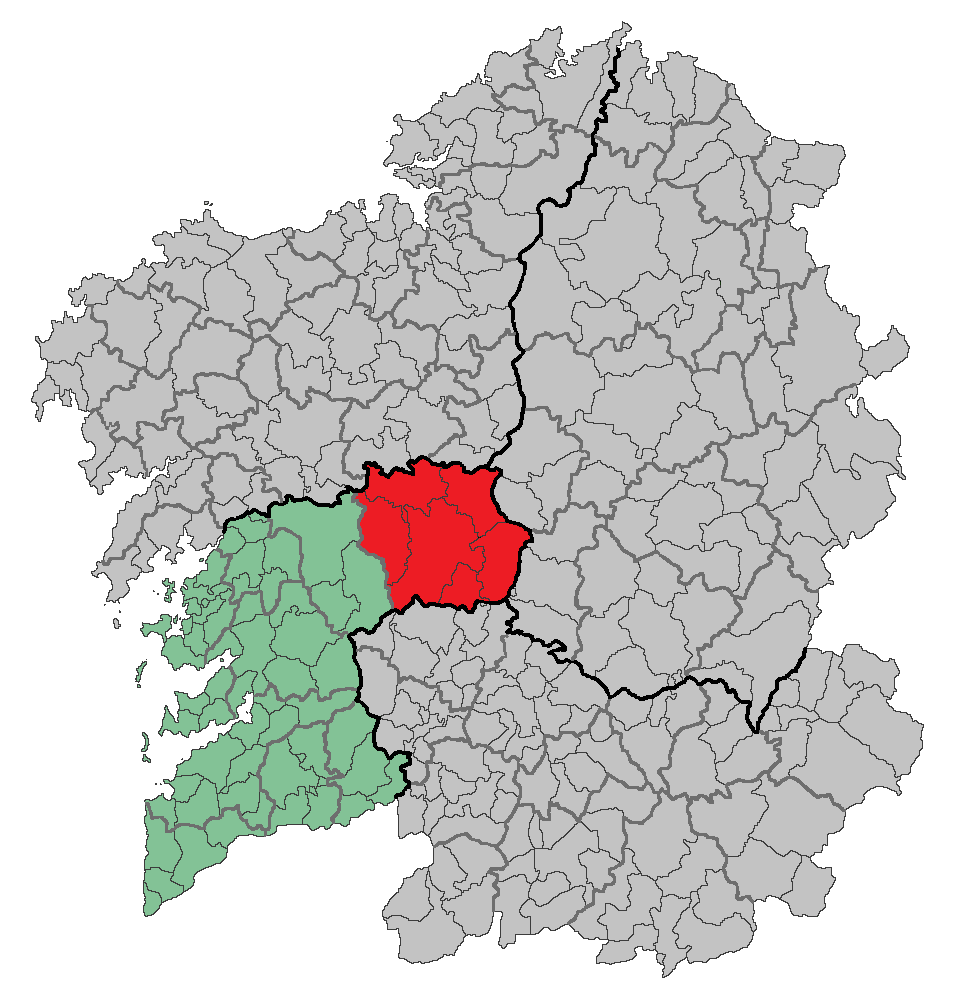 Region of Galicia (Spain)Based in: Image:Location of Betanzos.png Source: Designed by Leoplus. Original picture, designed by Caiser over a work made by Alyssalover.